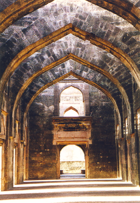 The interior of the main hall of the Hindola Mahal in Malwa (Madhya Pradesh), India.